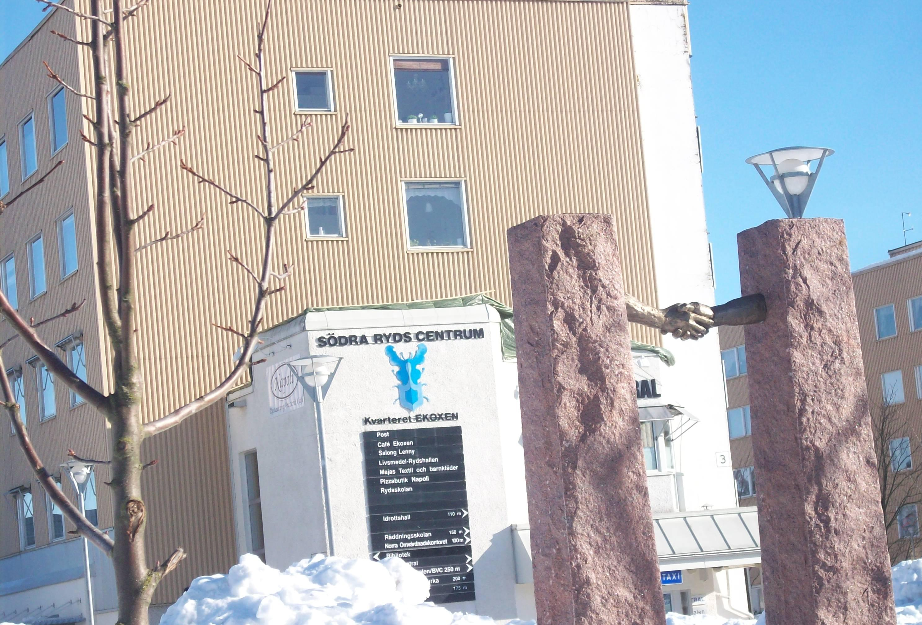 A Snapshot of Södra RydS Centrum in Skövde